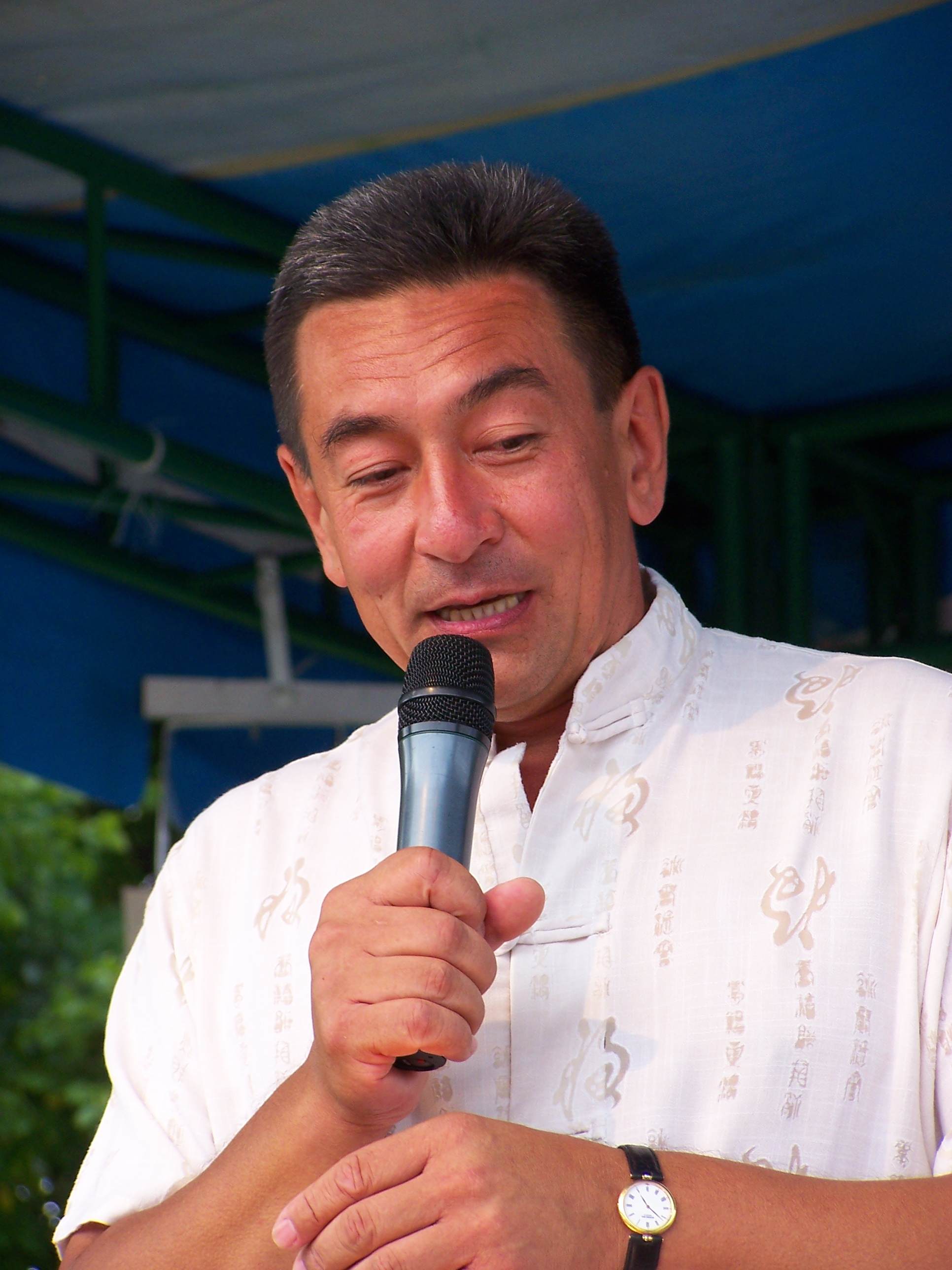 Jacek Wan.